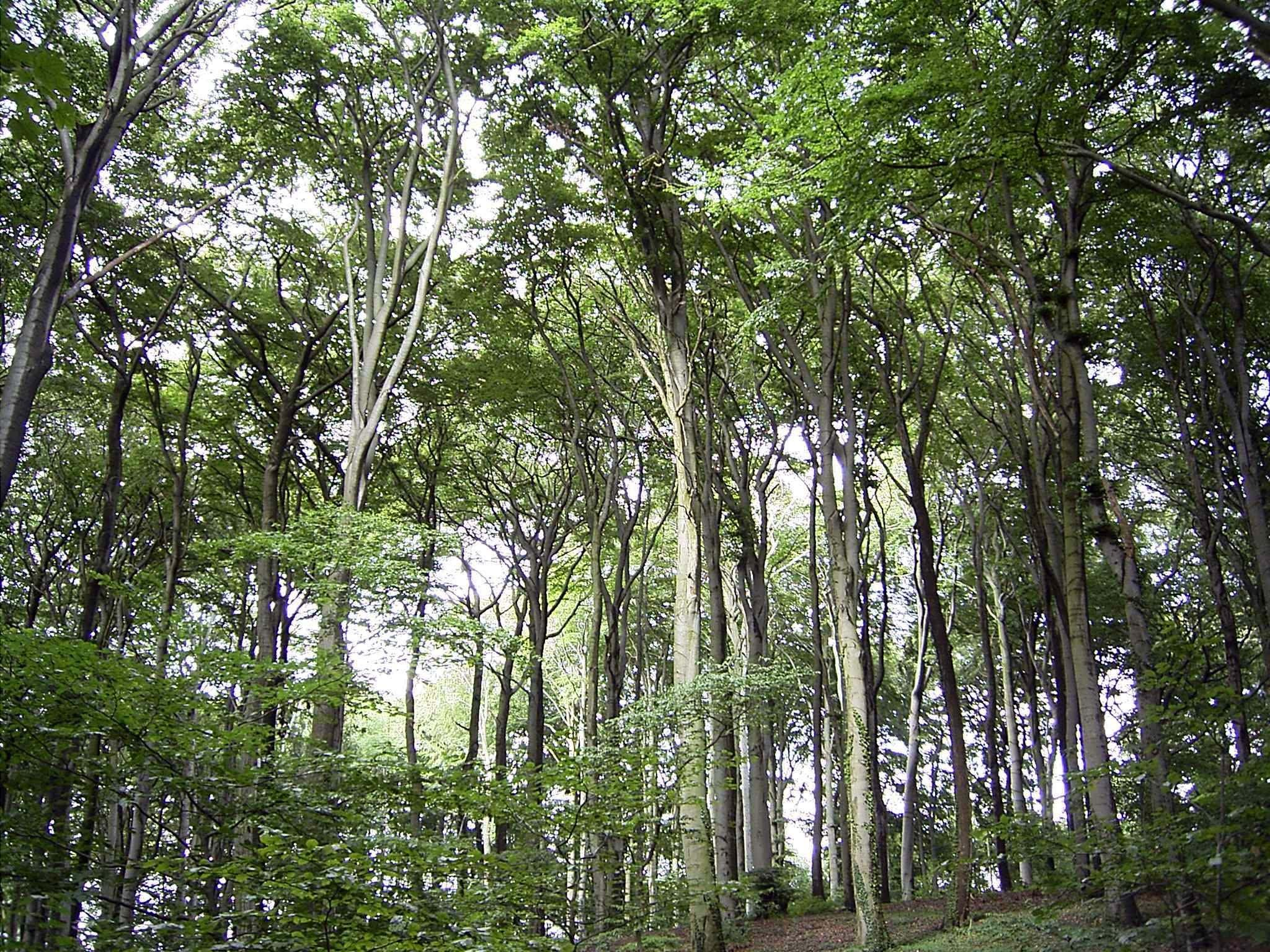 Beeches (Fagus sylvatica) in Bad Nenndorf, Germany)